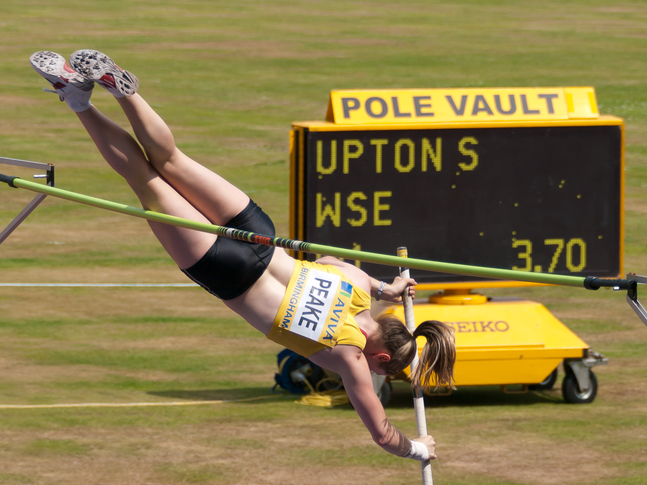 Sally Peake in the womens' pole vault event at the Aviva 2010 UK Athletics Championships and European Trials at the Alexandra Stadium in Birmingham